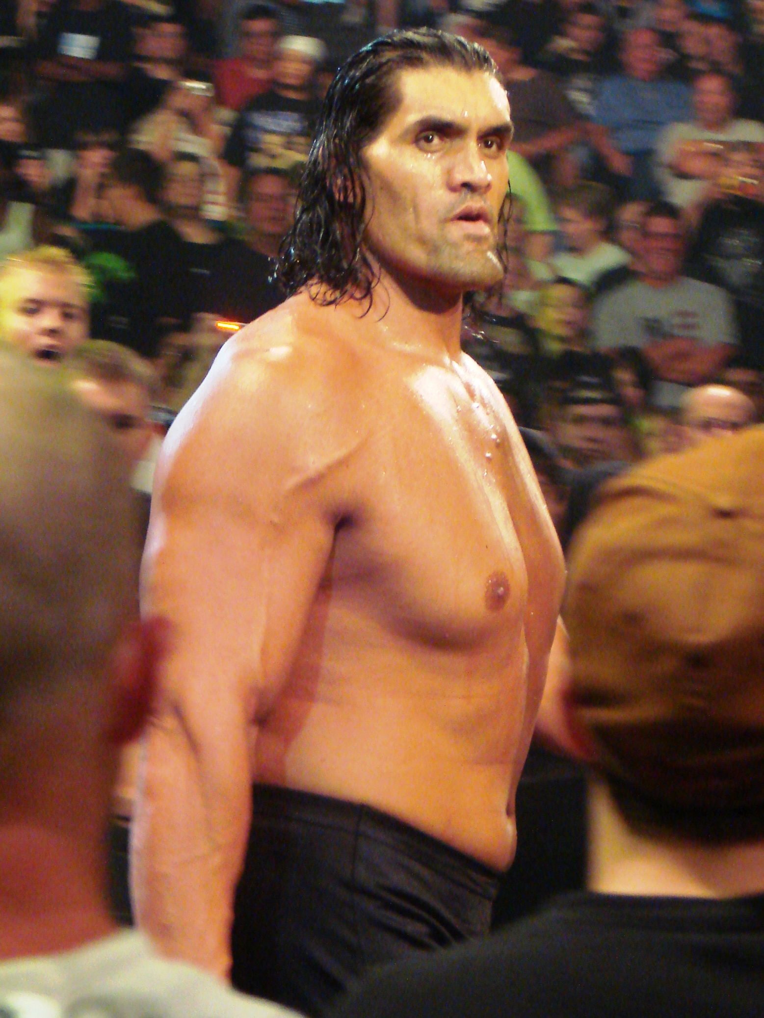 The Great Khali at WWE No Mercy 2007. Allstate Arena, Rosemont, IL, October 7, 2007. Taken by me, cropped, rotated, and brightened.